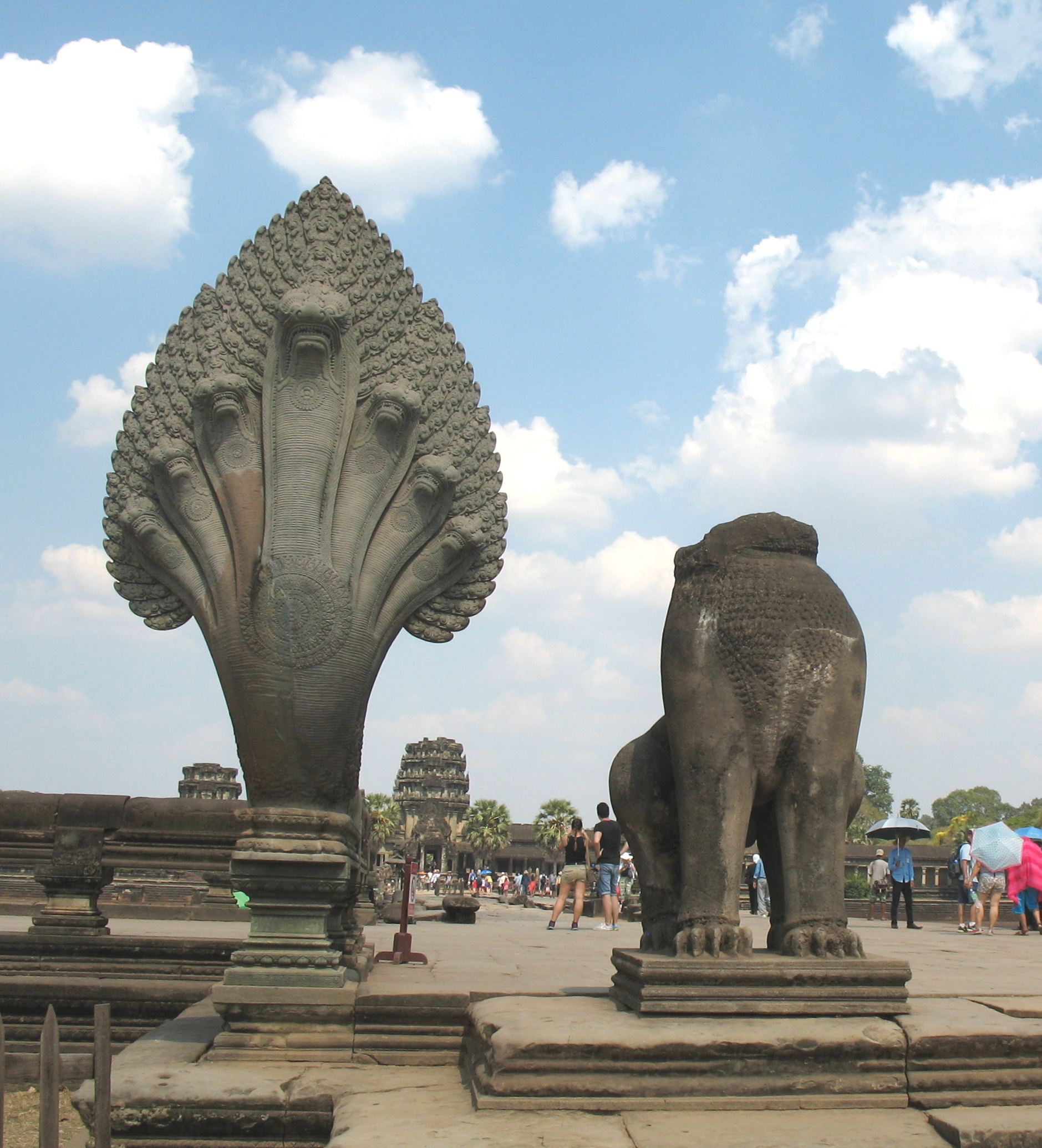 Figures of a naga and a guardian lion at the causeway leading to the entrance of Angkor Wat, The Naga figure has been restored.